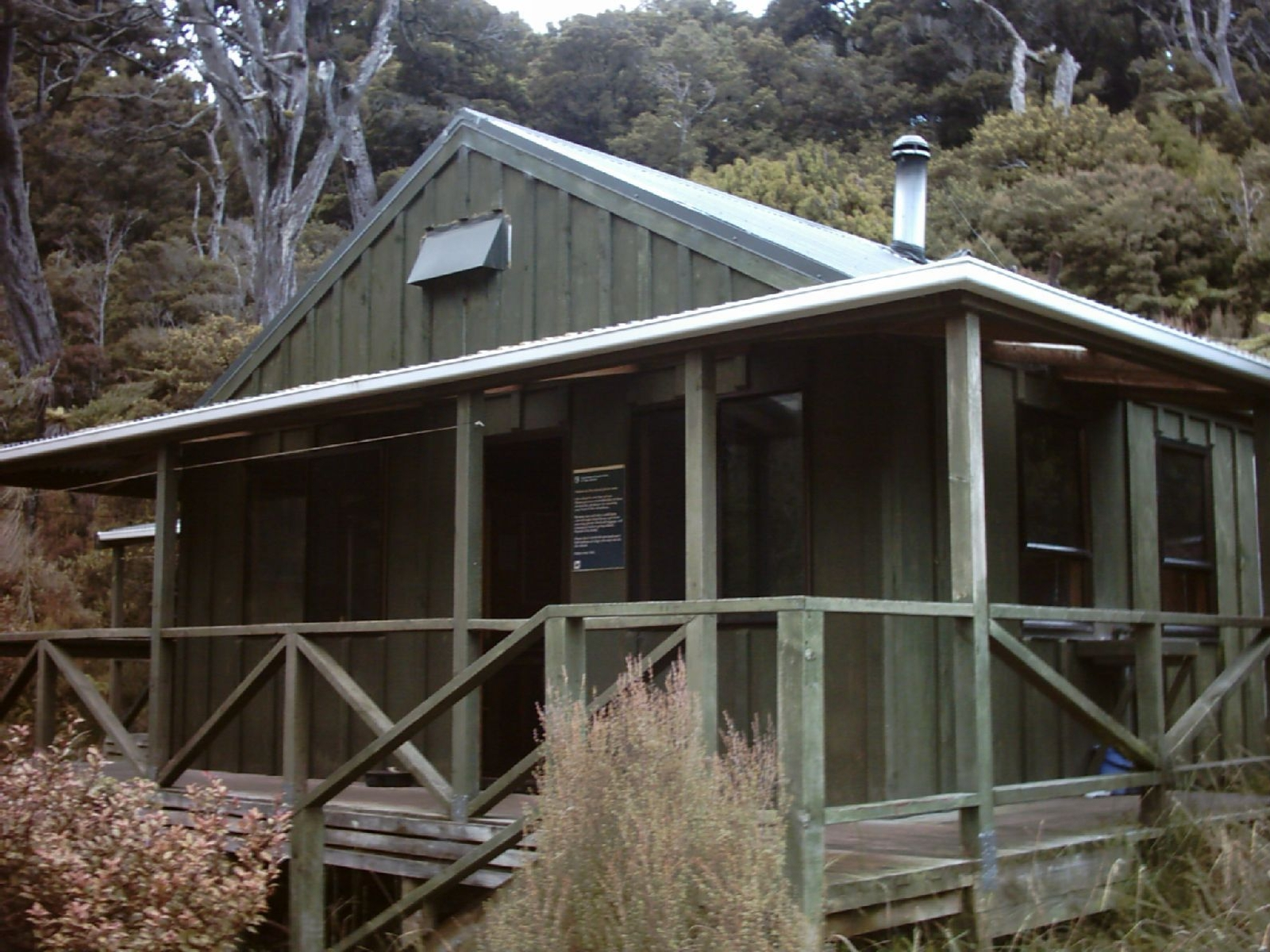 North Arm Hut DOC hut on the Rakiura Tracks south/west section, Stewart Island, New Zealand.